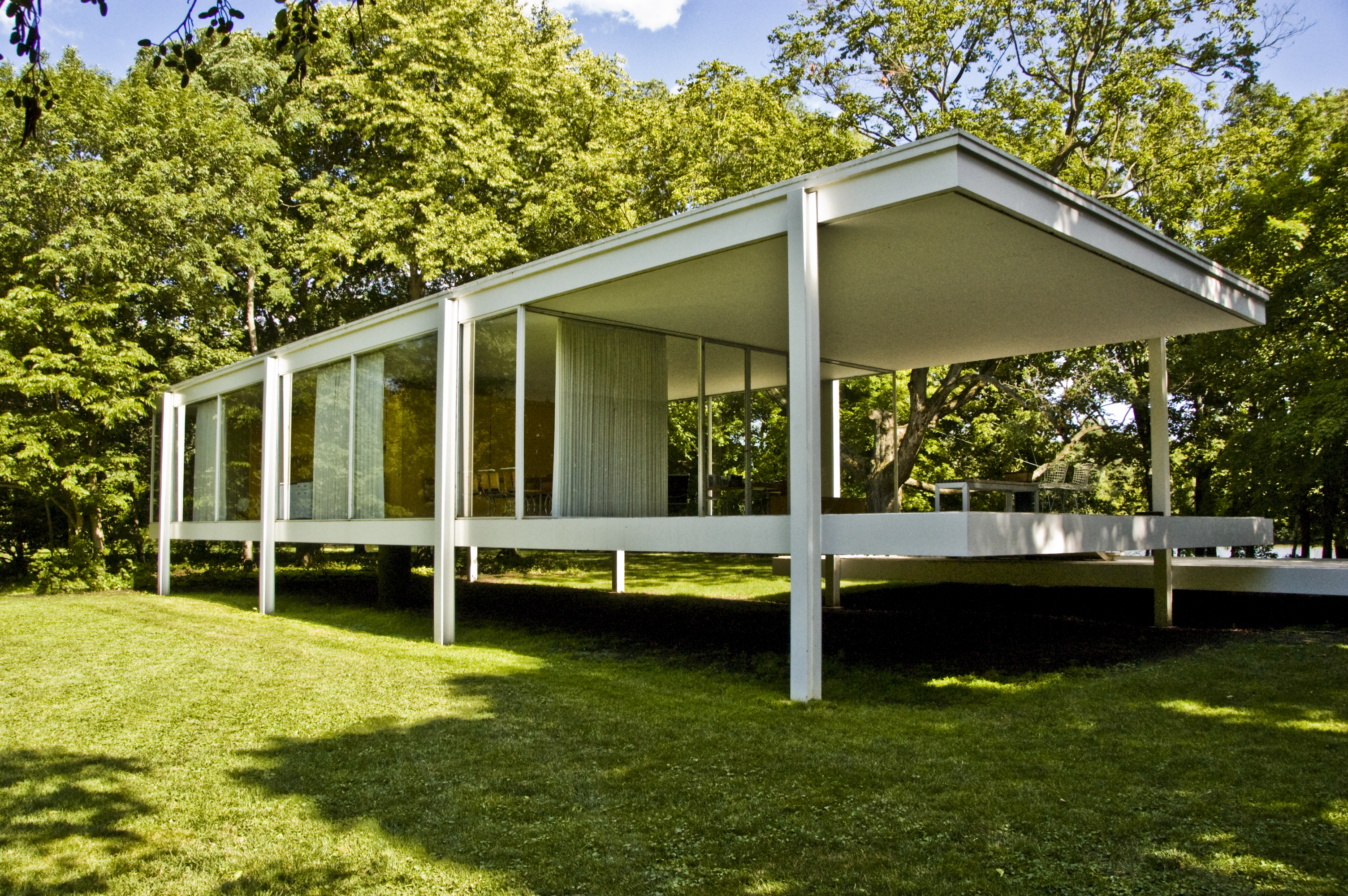 Farnsworth House (Illinois) by Mies van der Rohe